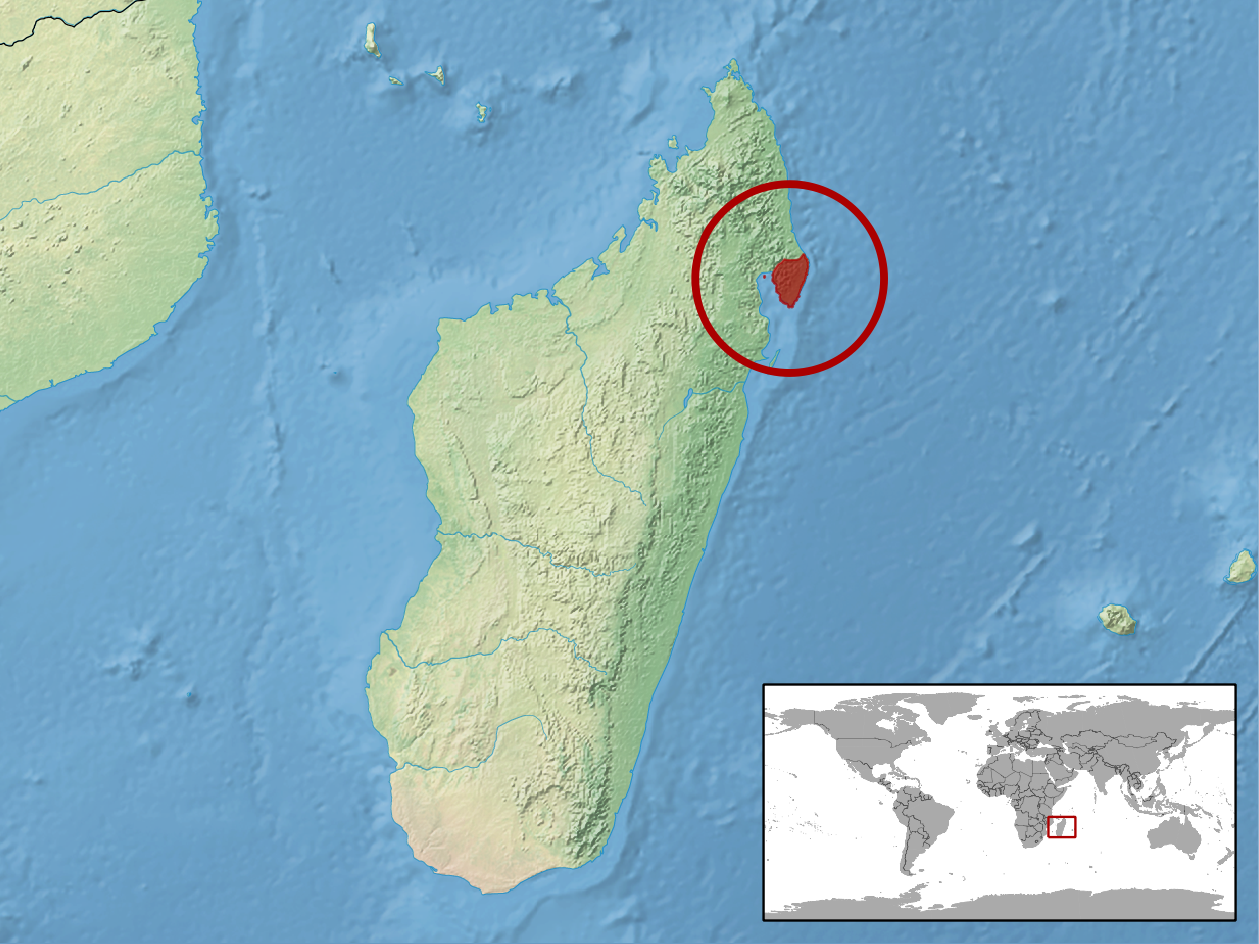 geographic distribution of Brookesia peyrierasi (Native: Madagascar)